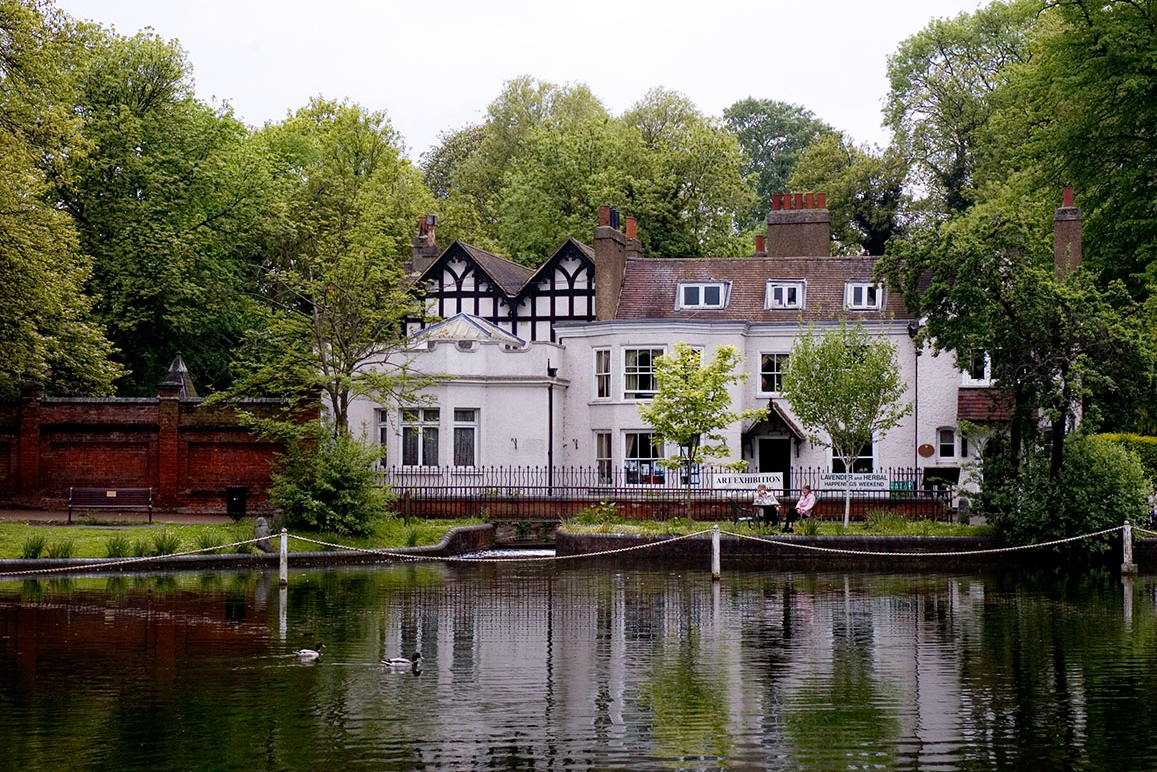 Honeywood, Carshalton. Situated to the west of the village ponds. Parts date from the 17C. Open to the public most days, with exhibitions of local history. There is also an ecology centre and grounds nearby.